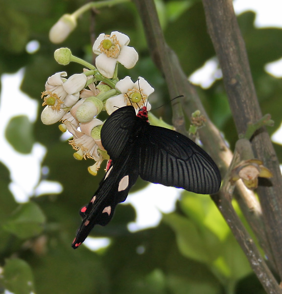 Great Windmill Atrophaneura dasarada at Samsing in Darjeeling district of West Bengal, India.